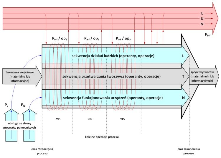 Figure 1. Model of the Ergo-Transformation Process (ETP).